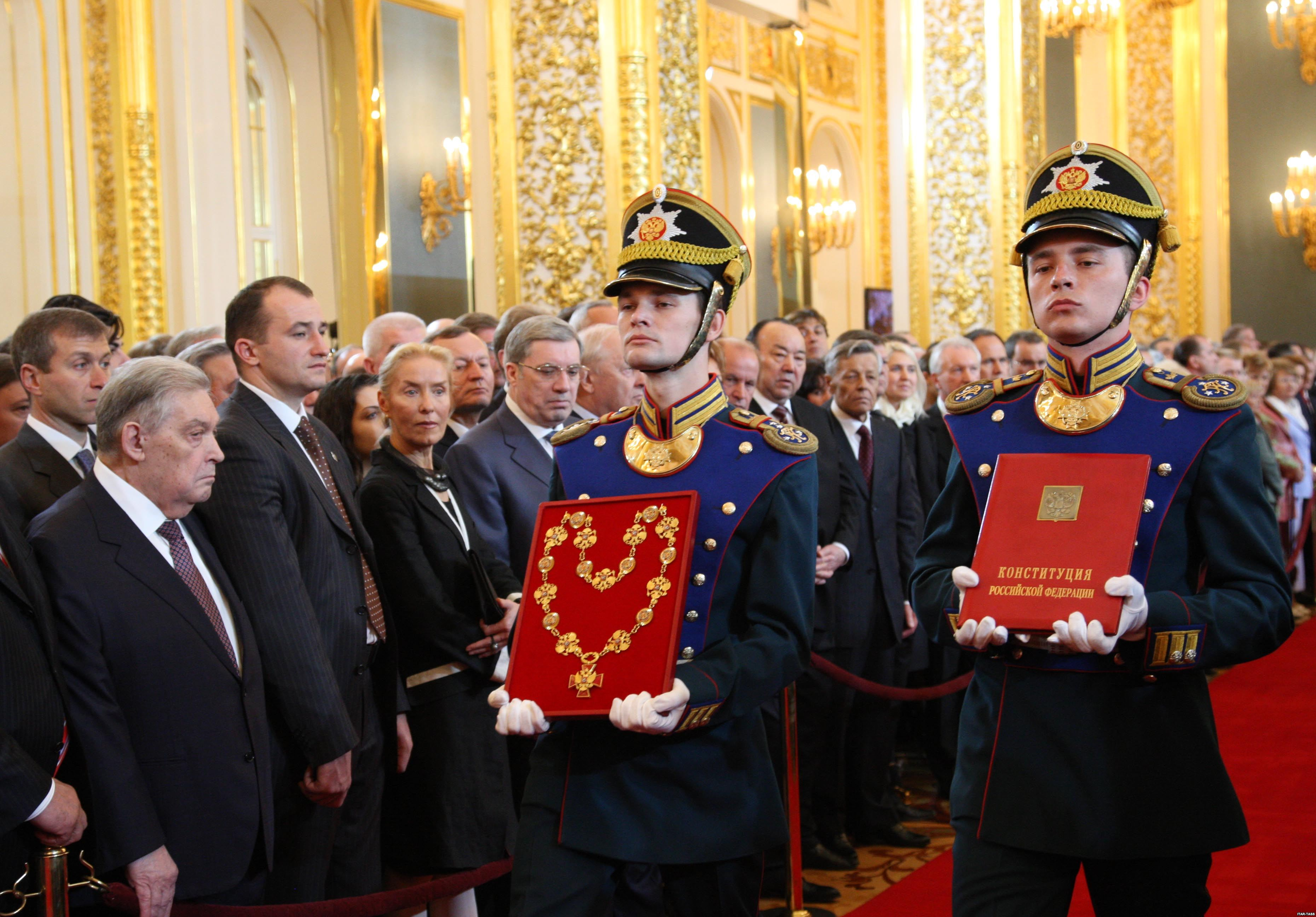 GRAND KREMLIN PALACE, MOSCOW. Inauguration of Dmitry Medvedev as President of Russia. The Russian Constitution and Symbol of the Presidential Office are carried in.